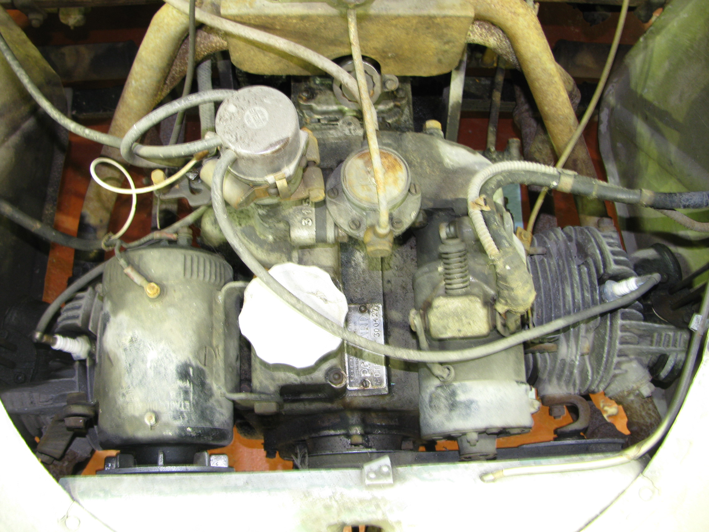 Engine of a Panhard Dyna X: air-cooled flat two. Classic Motor Show in Lahti, Finland.